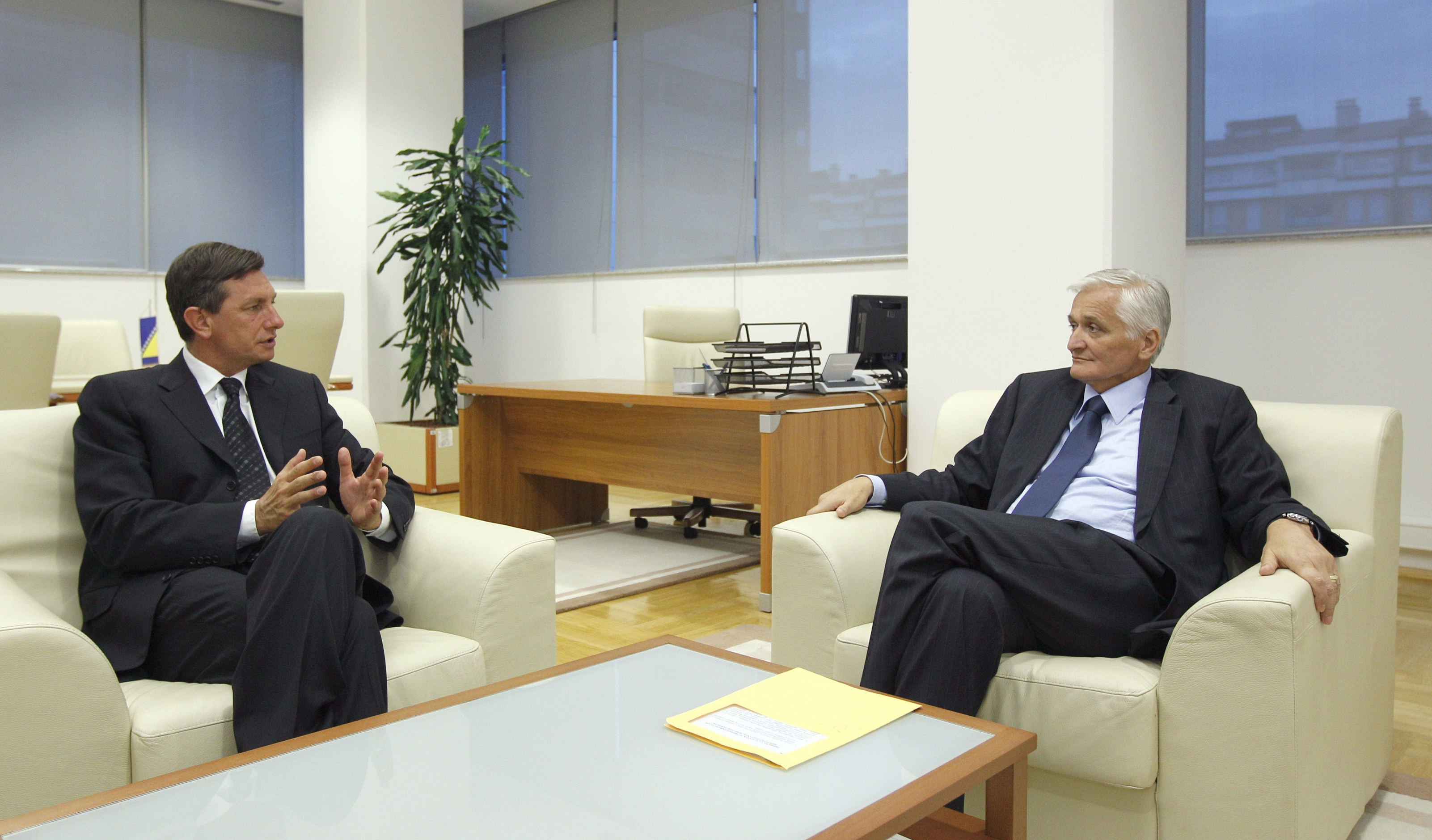 Borut Pahor and Nikola Špirić in 2010